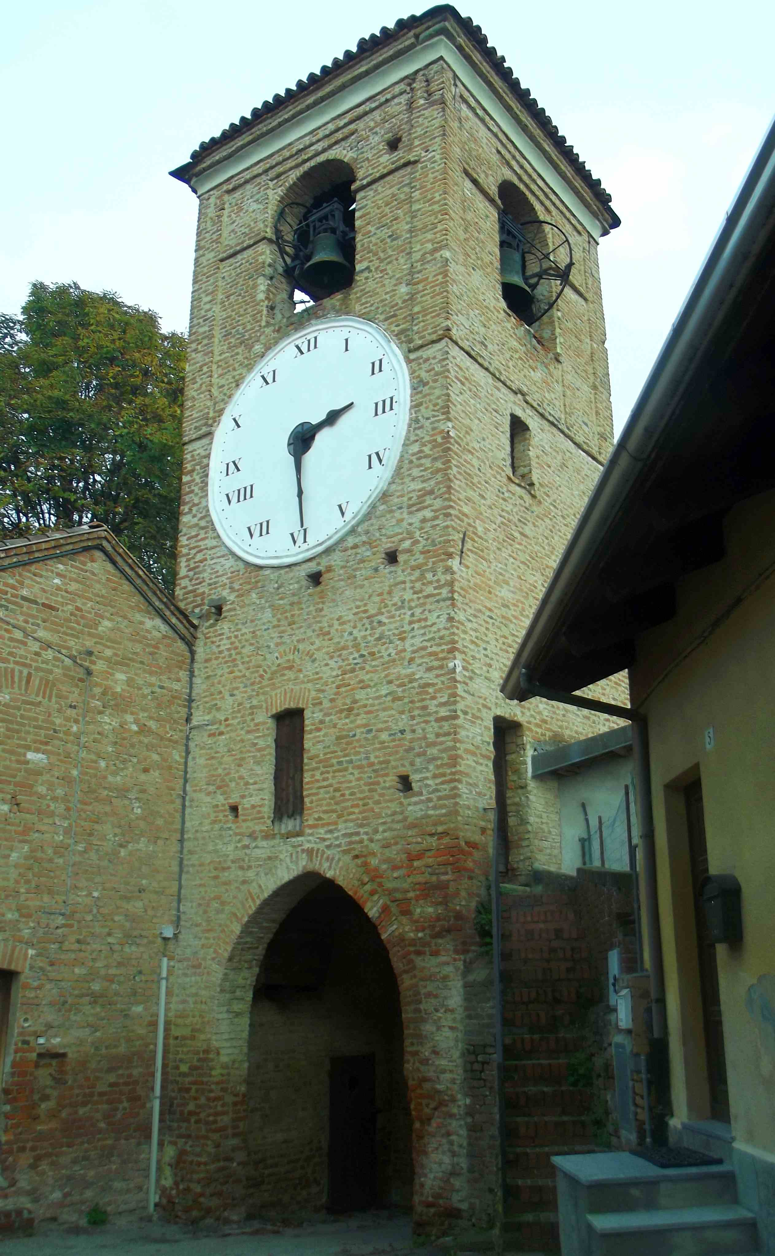 Bardassano (Gassino, TO, Italy): bell tower